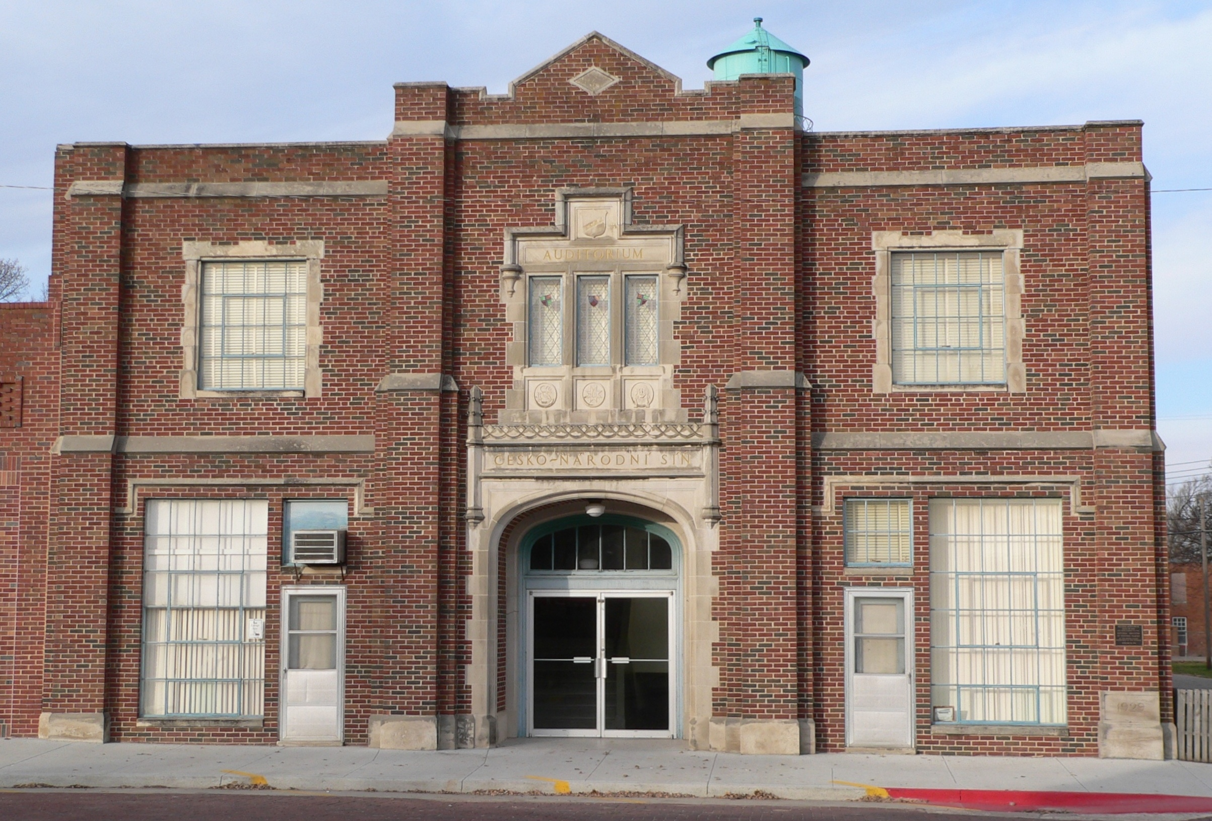 Cesko-narodni sin, aka Milligan Auditorium, in Milligan, Nebraska; seen from the front (east). The building was designed in Late Gothic Revival/Collegiate Gothic style by architects E.J. Kriz, R.O. Stake, and Karel Urban; the cornerstone was laid in 1929. The building is listed in the National Register of Historic Places.